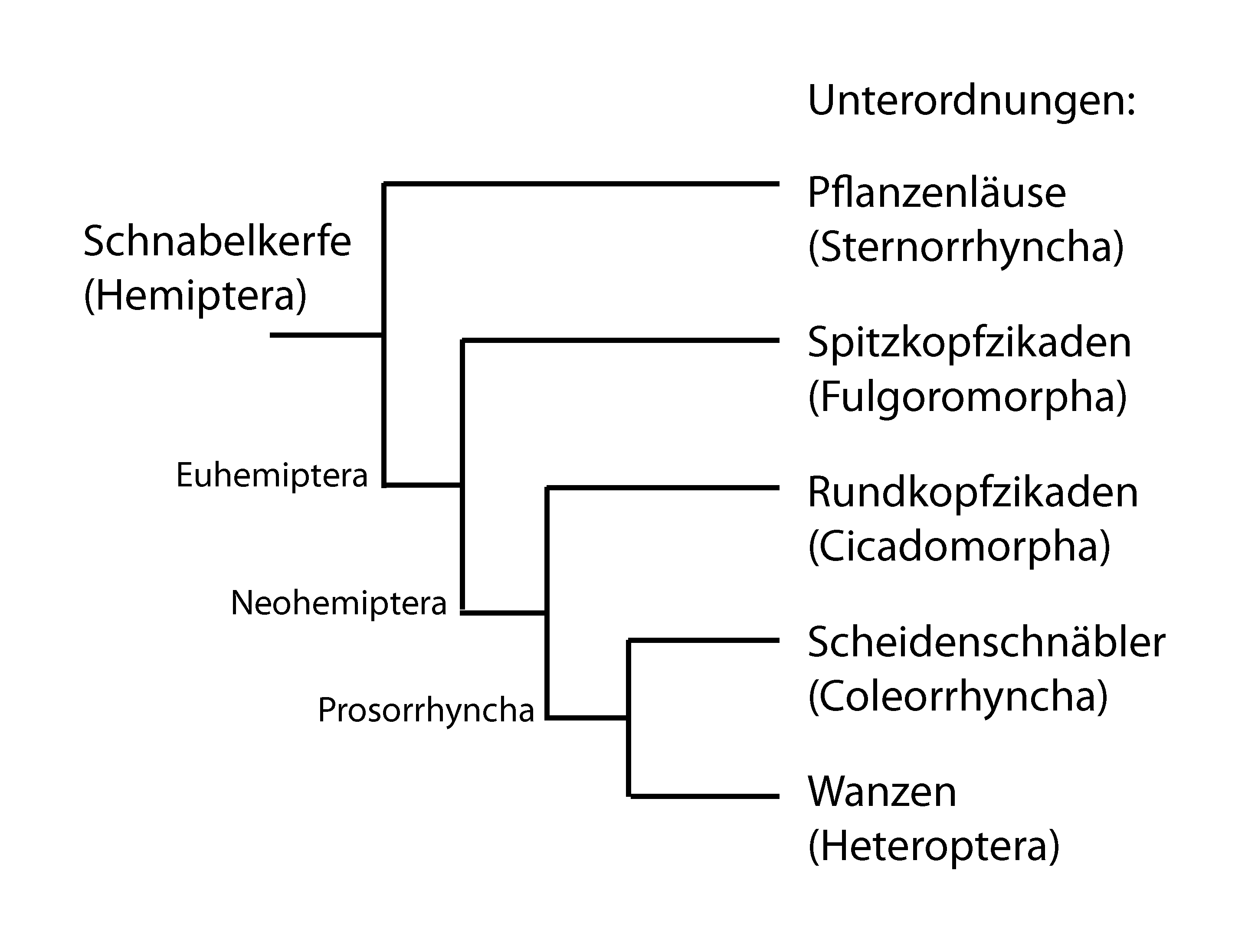 Cladogramm Hemiptera after Th. Bourgoin, B.C. Campbell (2002): Inferring a Phylogeny for Hemiptera: Falling into the "Autapomorphic Trap". - In: Denisia 4 (2002), N.F. 176: 279-328, ISSN 1608-8700.